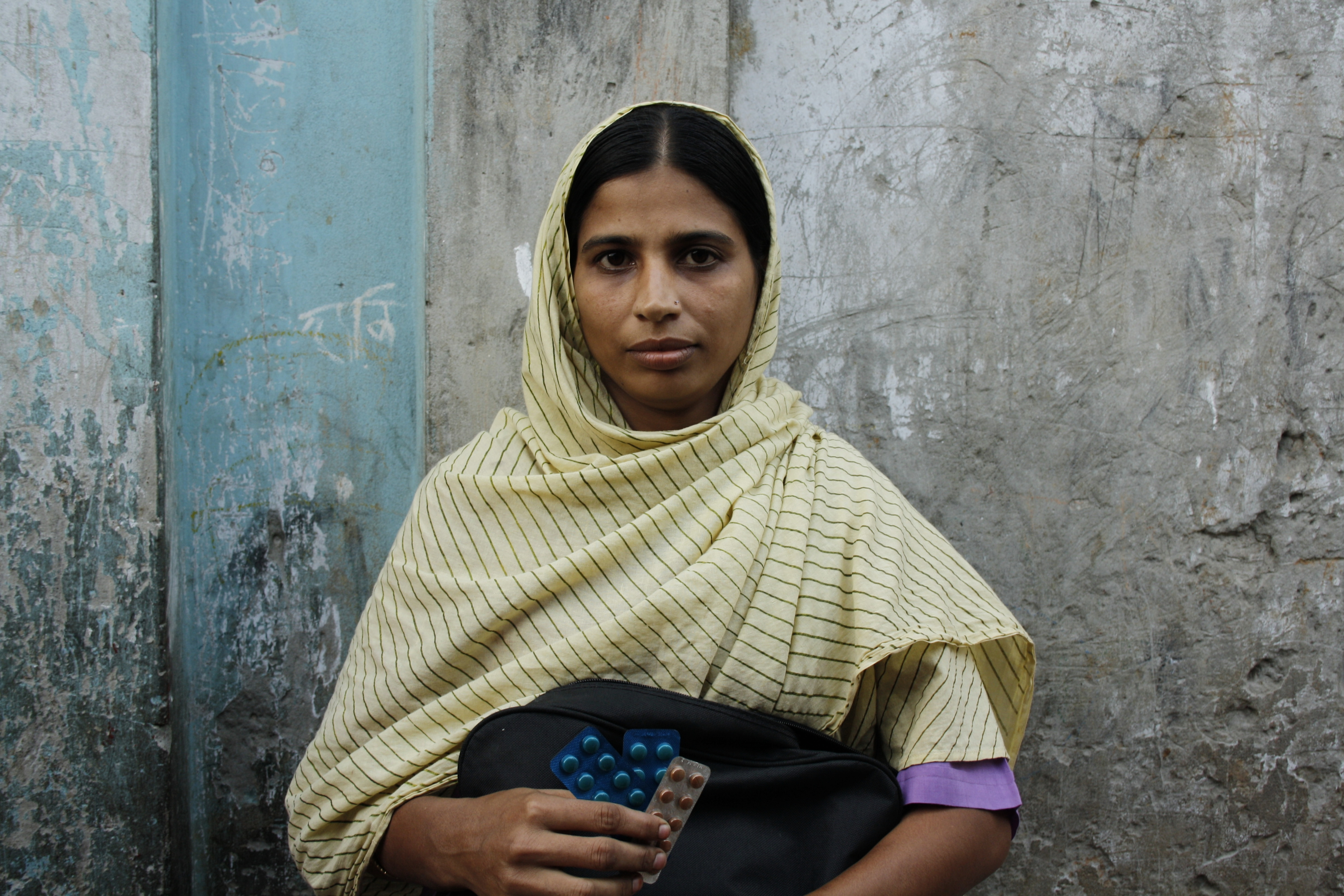 Community health worker Parvin is 26 and lives in the Korail slum in Dhaka. She has two children, aged five and nine. She volunteered to be a health worker on a Gated Foundation-supported community health project run by the Bangladeshi NGO BRAC. She is responsible for 2000 households and calls door to door to identify women who are pregnant. She refers them to the paid community health worker who can confirm the pregnancy and provide basic medical advice and help. She does get a token amount of money to take the mother to the delivery centre to give birth. Community health workers are selected from the community and local area and are known as shasthya shebikas. They accompany pregnant women to the birthing hut and participate in the birth event. They are the front line workers each covering 2000 households. Two birthing attendants work in a birthing hut which covers 2000 households. Korail slum is one of the largest slums in Bangladesh and most of its residents come from poorest parts of the country such as Jamalpur and Kishorganj. It covers about 100 acres and is home to around 30,000 people. Most of its inhabitants live below the poverty line. Photo: Lucy Milmo/DFID